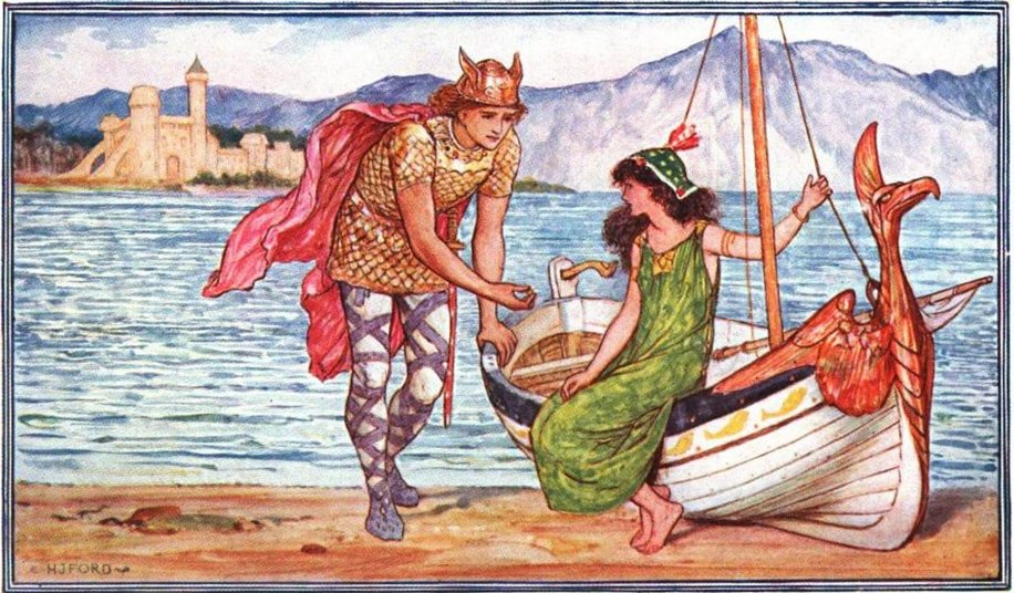 Sigurd meets Helga playing with boat at lake. Icelandic folktale "The Horse Gullfaxi and Sword Gunnföder". Illustr. by H. J. Ford